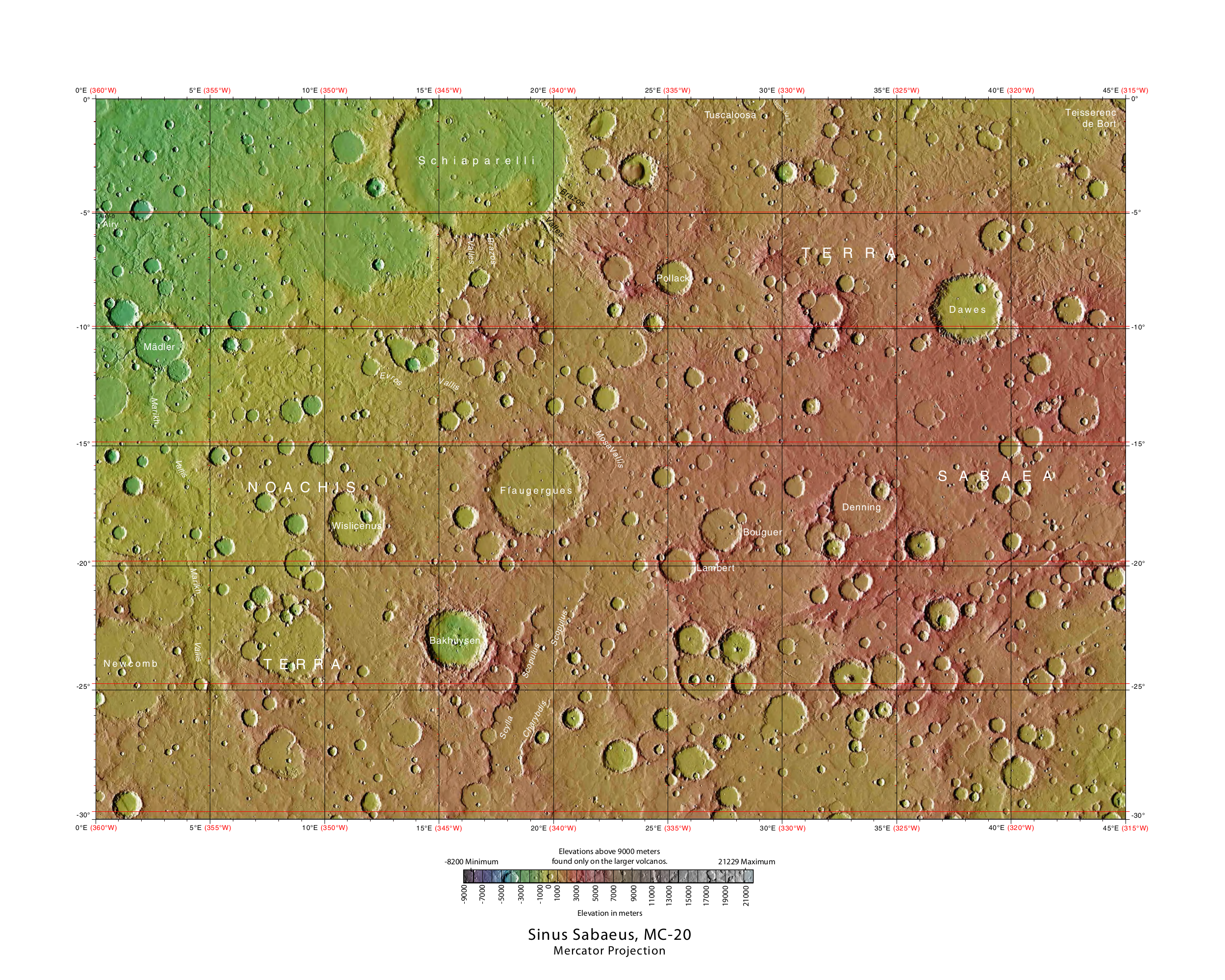 MOLA Topographic Map of Sinus Sabaeus Quadrangle (MC-20) on the planet Mars. NOTE: Converted the original PDF file to a PNG File (via GIMP v2.8.4 program) - and uploaded to Wikimedia Commons.